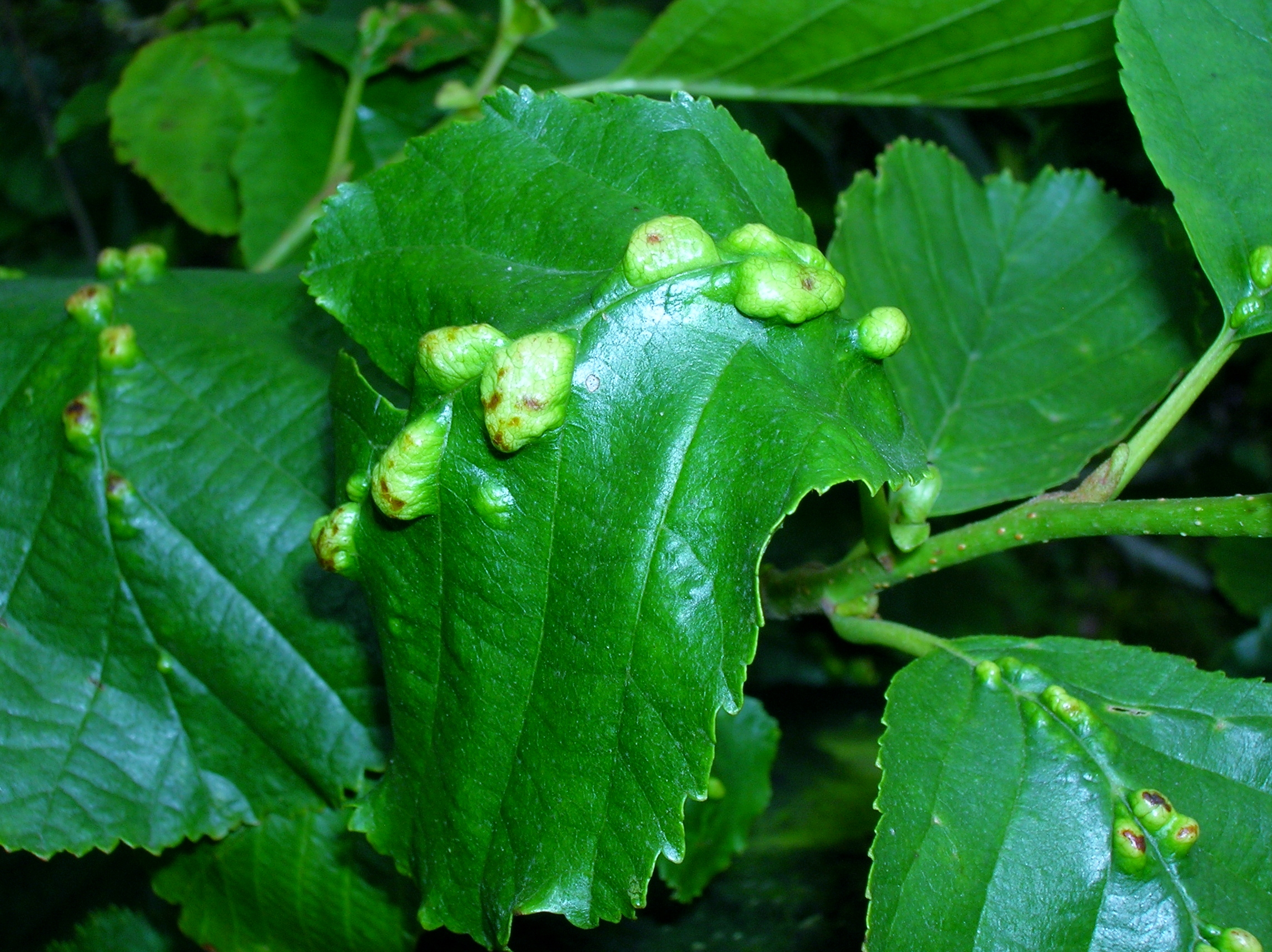 Eriophyes inangulis N on upper epidermis of an alder leaf (Alnus glutinosa), Montfode Glen, North Ayrshire, Scotland.